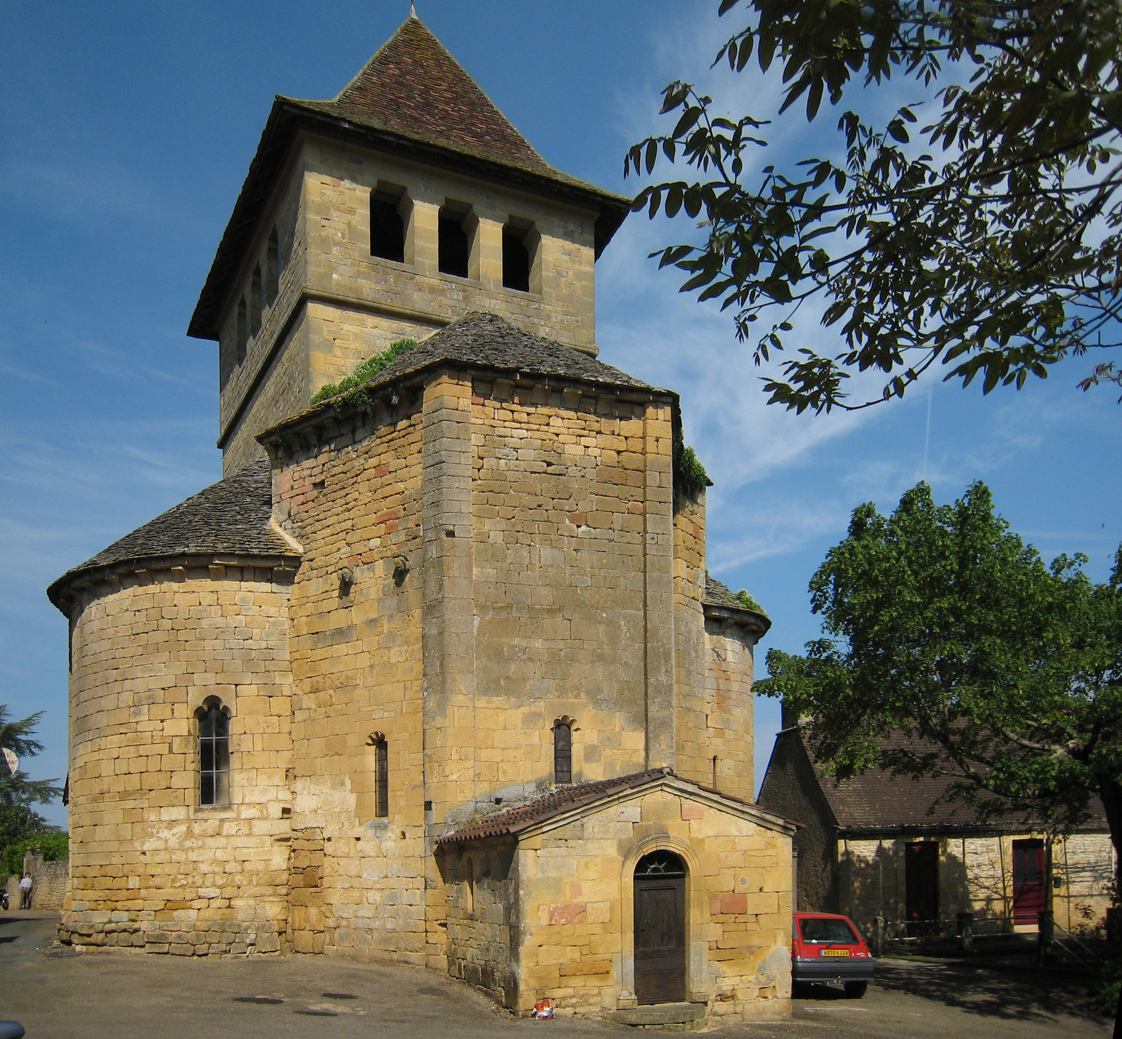 Village of Marquay, located in the Département of Dordogne/France - church